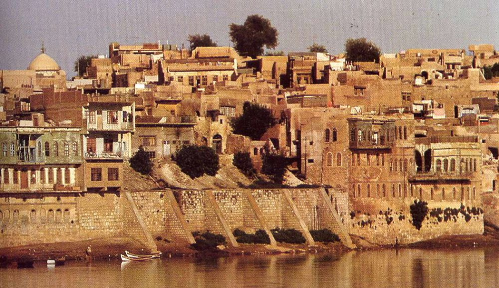 Al-Medan in Mosul